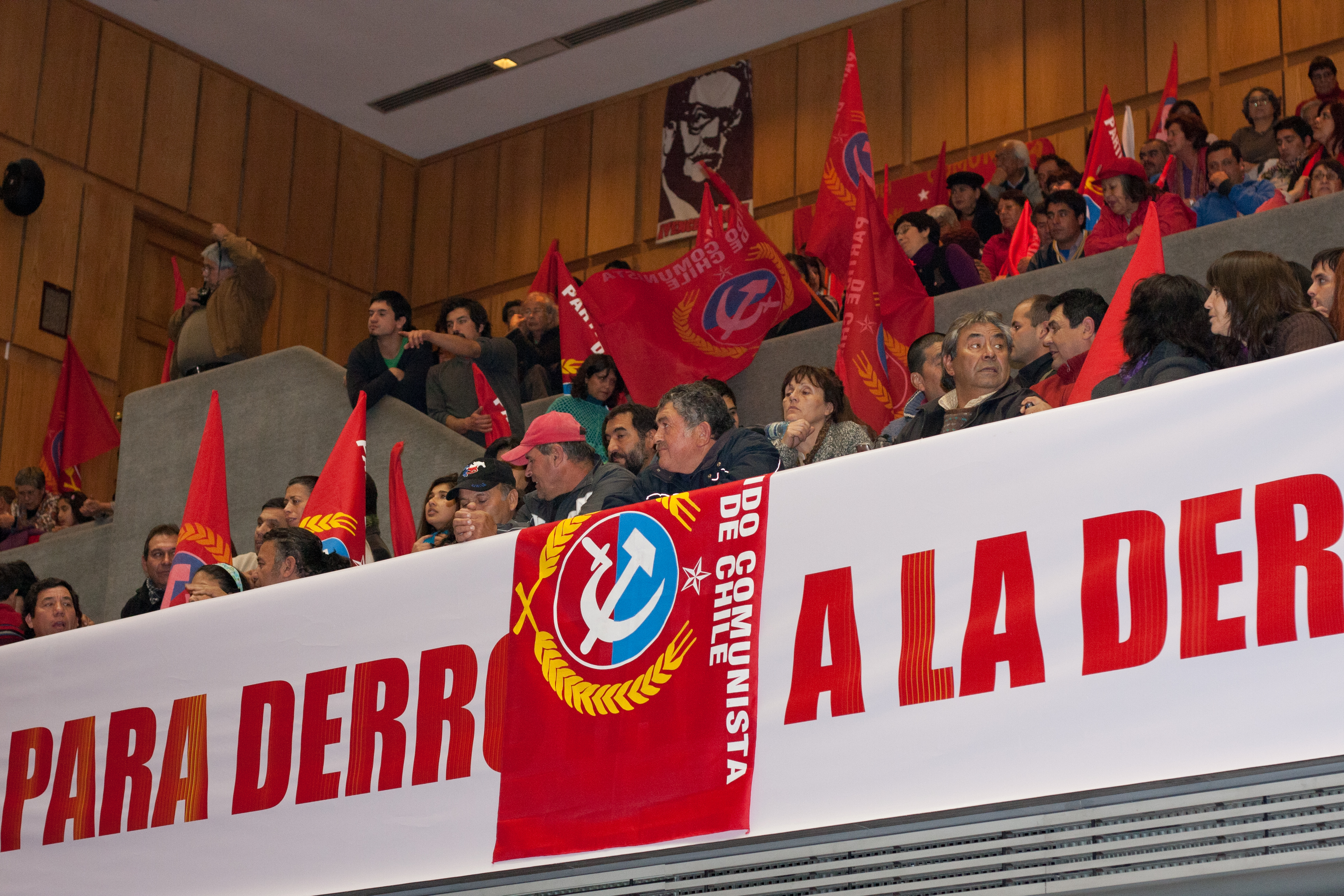 Photographic collection of the Library of the National Congress of Chile.